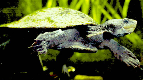 Underwater photo of Elseya lavarackorum